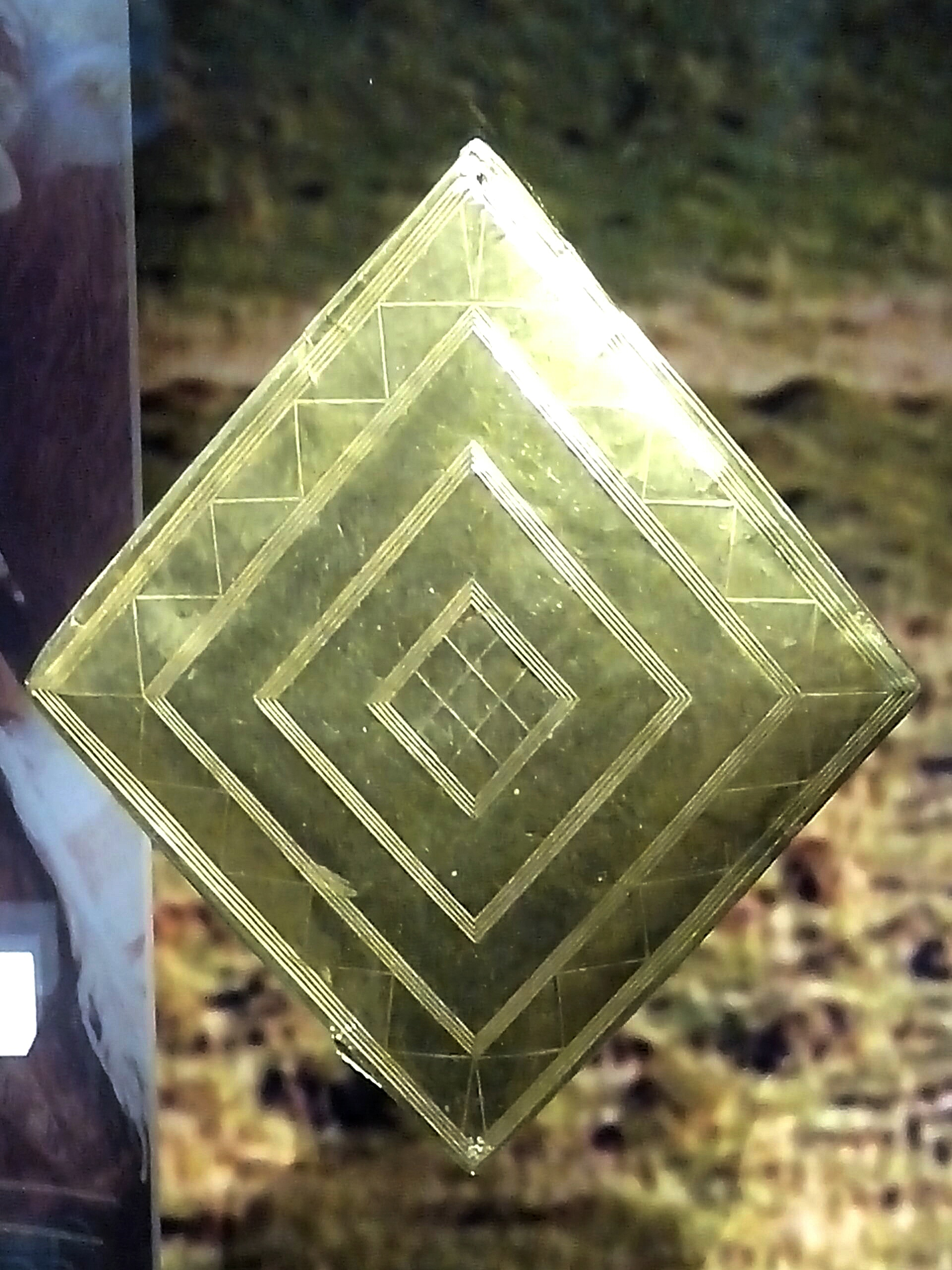 Gold lozenge. One of the grave goods from Wilsford G5, Bush Barrow. Regarded as one of the finest examples of Bronze-Age gold-working found in Britain. It is made from a sheet of gold and would have been wrapped around a thin piece of wood.